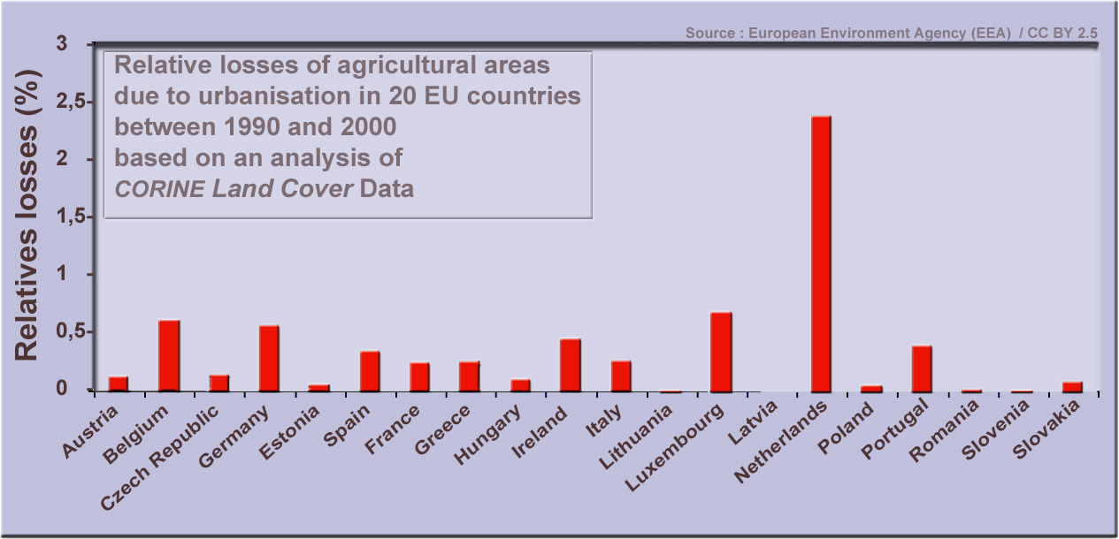 Relative losses of agricultural areas to urbanisation (EEA) Graph showing estimated loss of agricultural land in 20 EU countries due to urbanization between 1990 and 2000 based on an analysis of CORINE Land Cover Data Source : EEA, CC-by-2.5, retrieved 2011-10-22